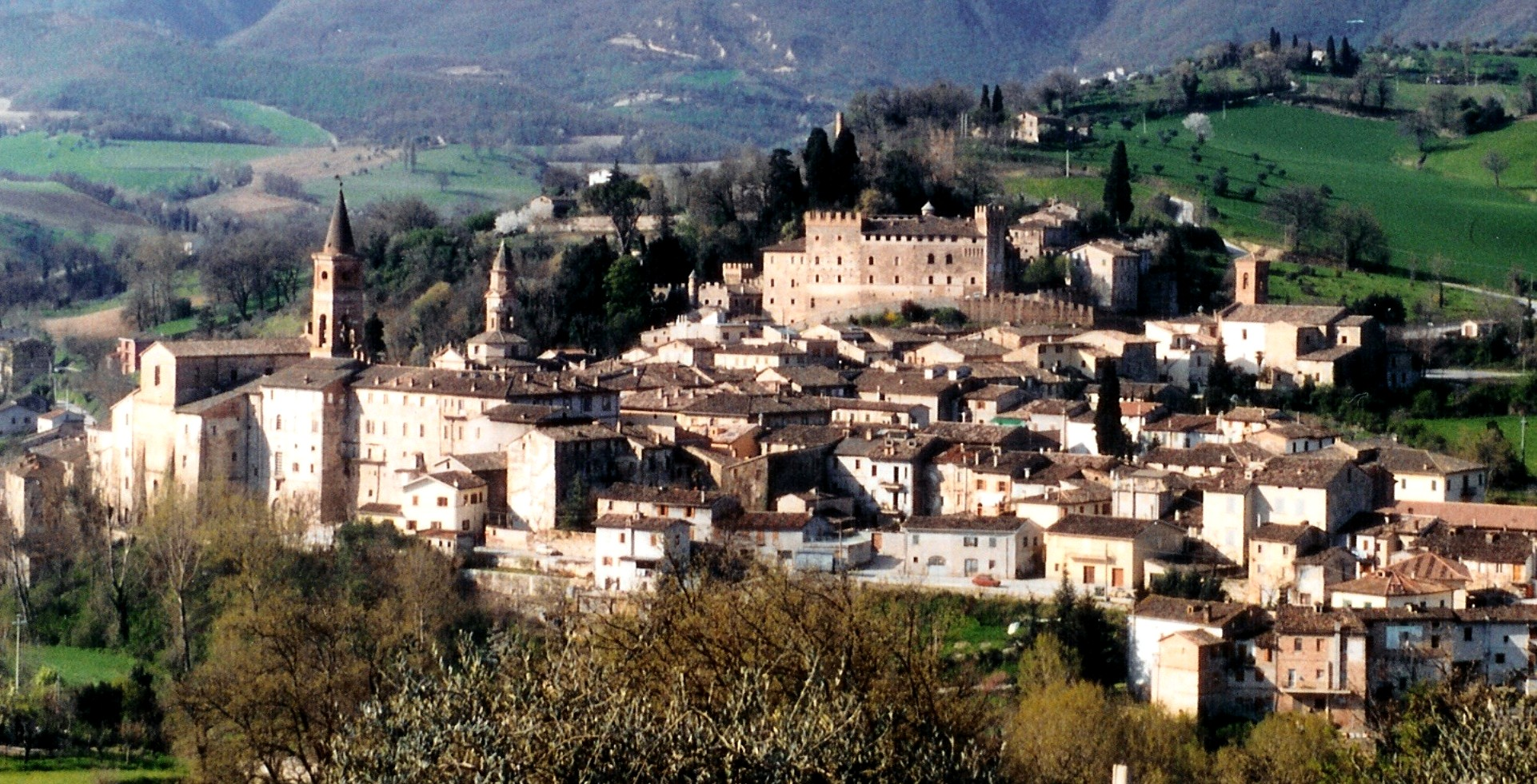 Panoramic view of the historic center of the town of Caldarola, Italy